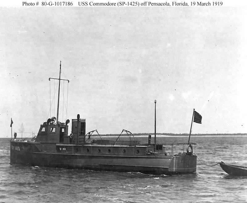 United States Navy patrol boat USS Commodore (SP-1425) off Pensacola, Florida